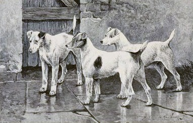 Drawing of the white Fox Terriers Old Jock, Grove Nettle and Old Tartar.